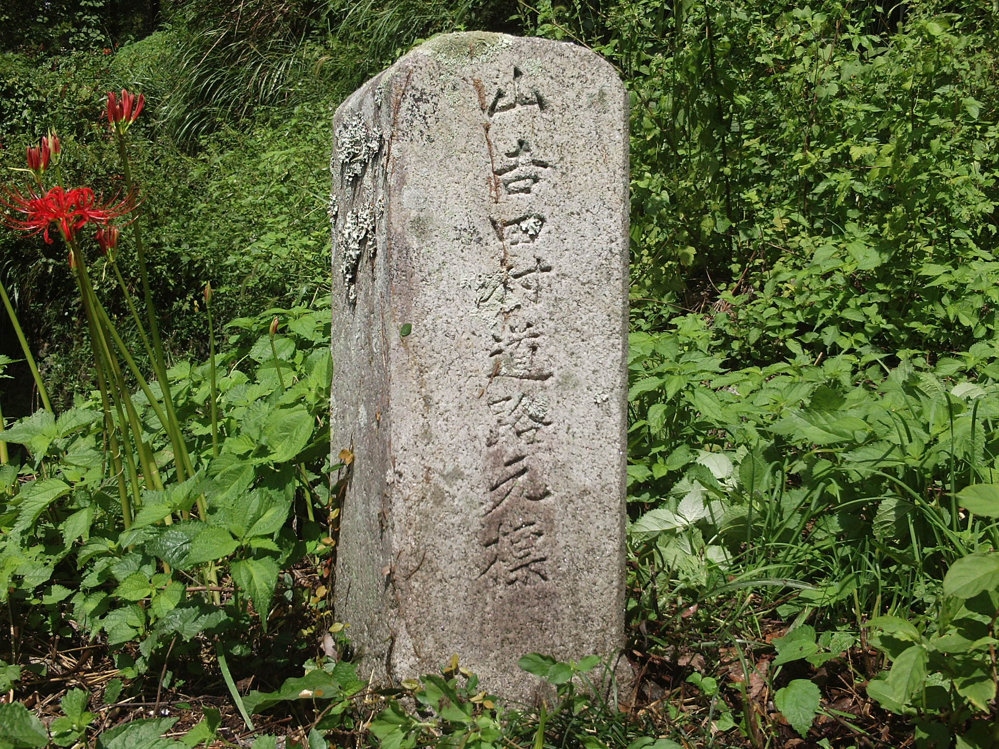 Kilometre zero of Yamayoshida village. (Yamayoshida village, Yana-gun, Aichi.)